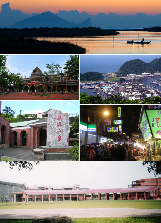 Montage of various Yilan County images.